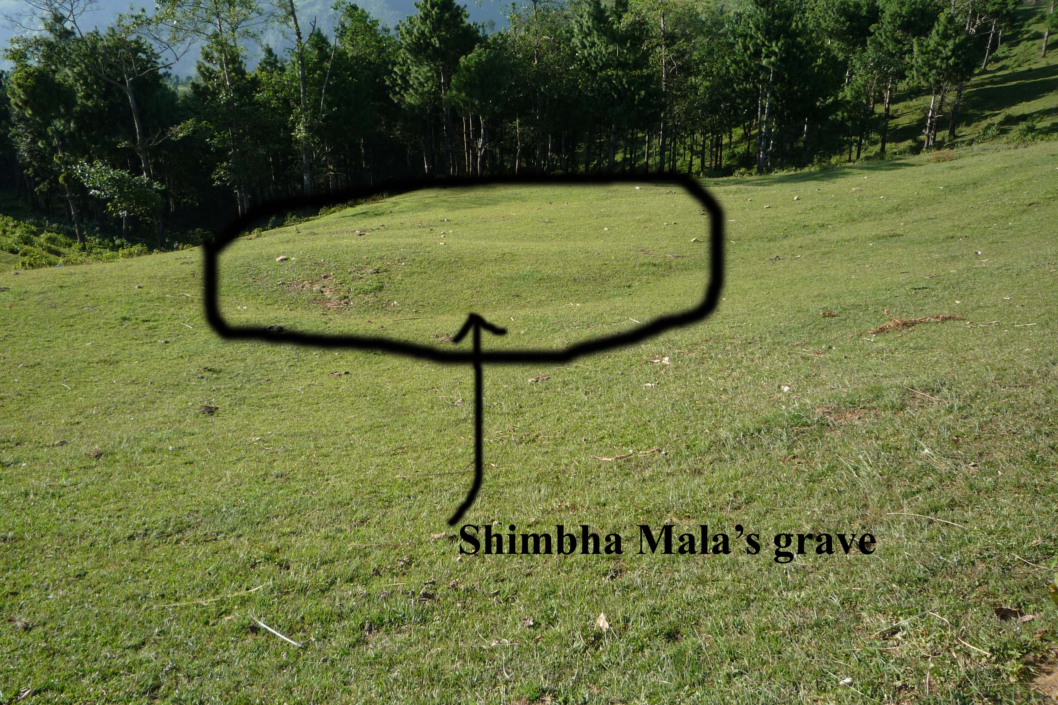 Kiat Chamling King Shimbha Mala was buried in this location along with his horse. He was killed by Prithbi Narayan's forces.